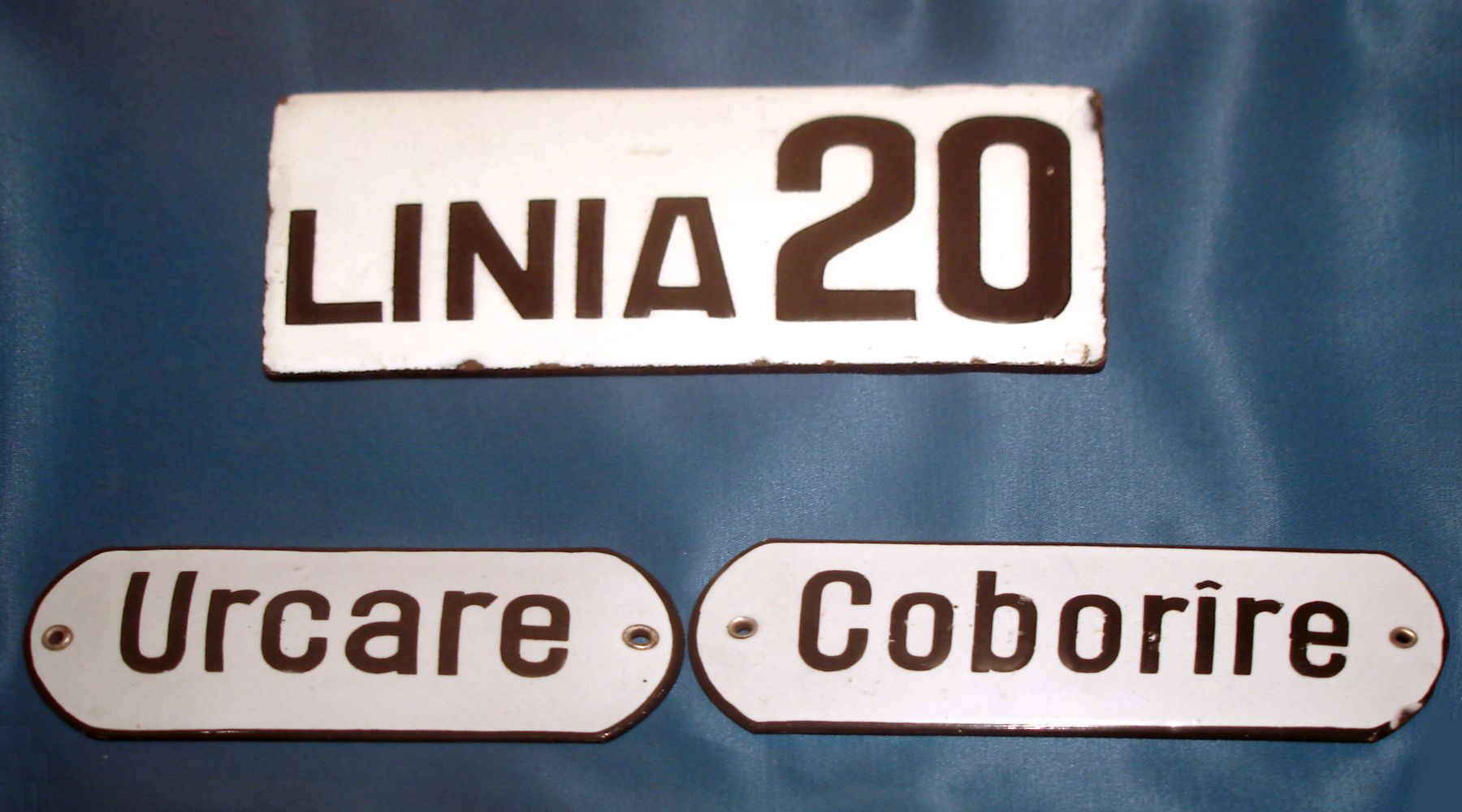 Plates from early 20th century trams in Bucharest